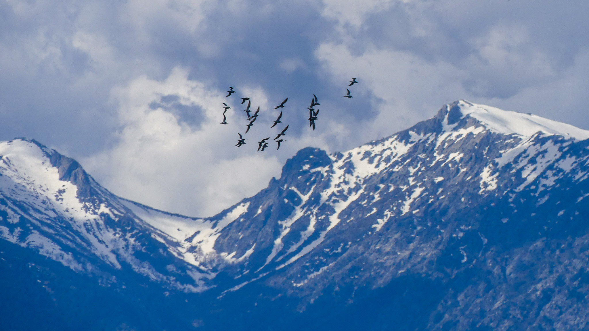 Punta di Tintennaja as seen from Urbino swamp.